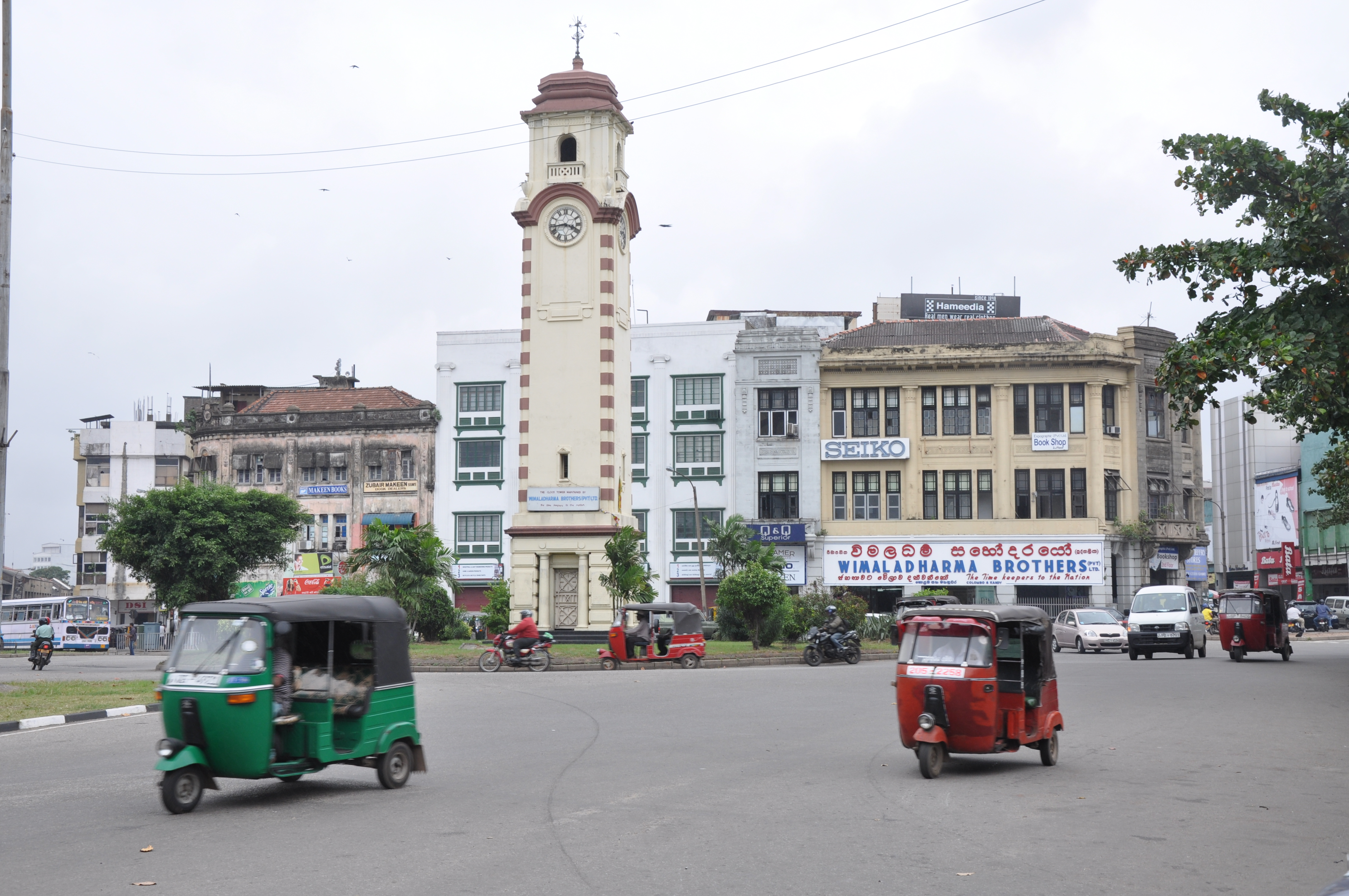 The Khan Clock Tower was built in Colombo, Sri Lanka by the Khan Family of Bombay. The Clock Tower is a popular landmark and marks the entrance to Pettah Market. The Clock Tower was built in the early 20th century by the family of Framjee Bhikhajee Khan. This Parsi family hailed from Bombay, India and also owned the famous Colombo Oil Mills as well as other business interests in Ceylon, as Sri Lanka was then called. The clock tower also provided a working water fountain, but this no longer functions. The plate on the clock tower carries the inscription: "This clock tower and fountain was erected to the memory of the late Framjee Bhikhajee Khan by his sons Bhikhajee and Munchershaw Framjee Khan as a token of affectionate gratitude and dedicated through the Municipal Council to the citizens of Colombo on the fourth day of January 1923, the 45th anniversary of his death." The Tower is roughly four storeys high and is situated on a landscaped roundabout that marks the entrance to the famous market